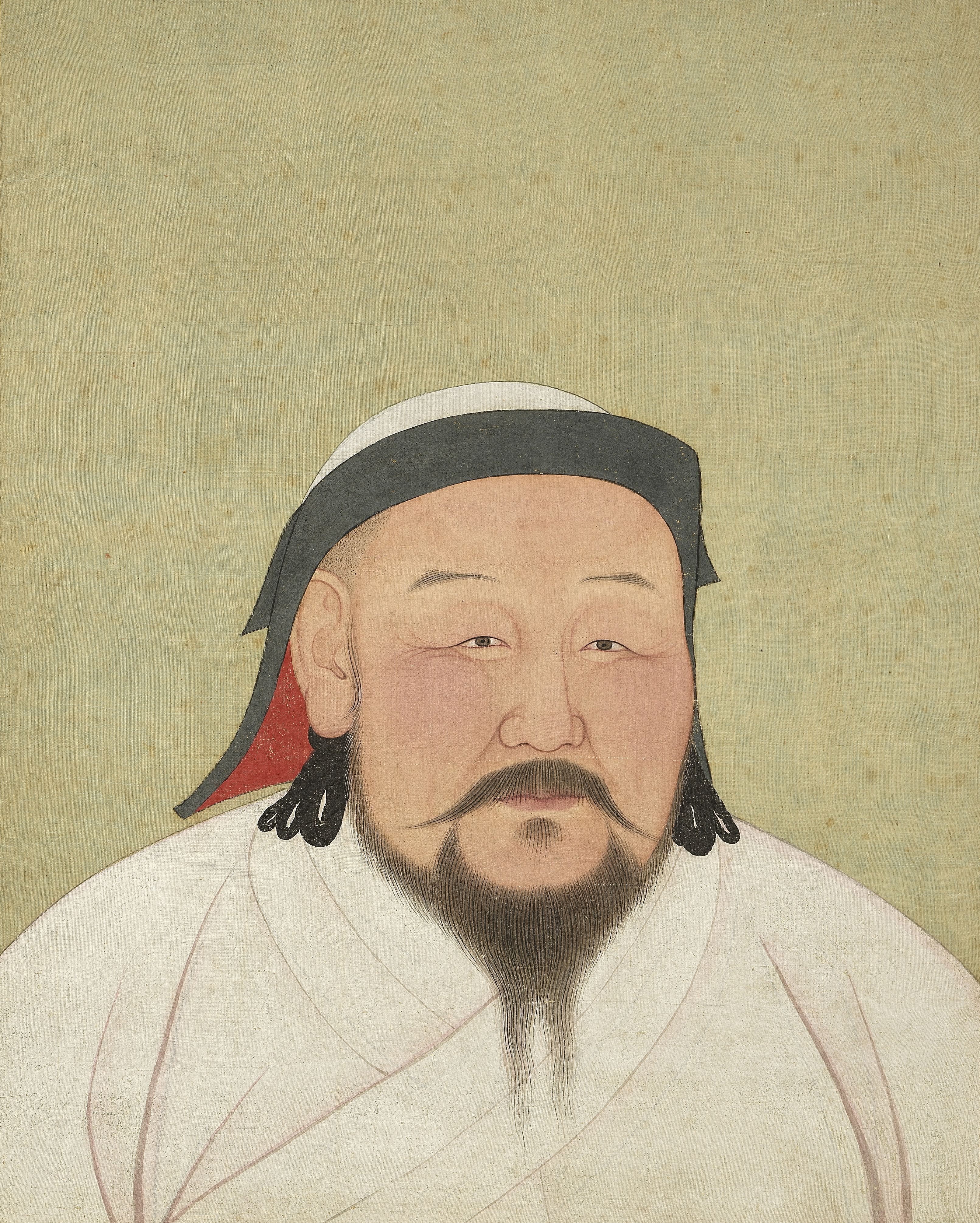 Post-mortem portrait of Kublai Khan; made to make him appear about 30 years younger